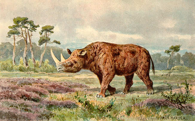 Woolly Rhino